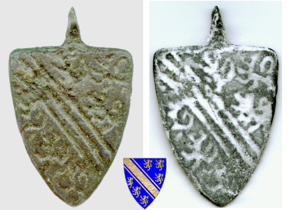 A copper alloy shield-shaped pendant with damaged suspension loop. No enamel or gilding remaining, but the outline of the original arms (a bend cotised and six lioncels rampant) is clearly visible. Measurements: 27.68 mm x 44.29 mm (including damaged loop); 2.32 mm thick..